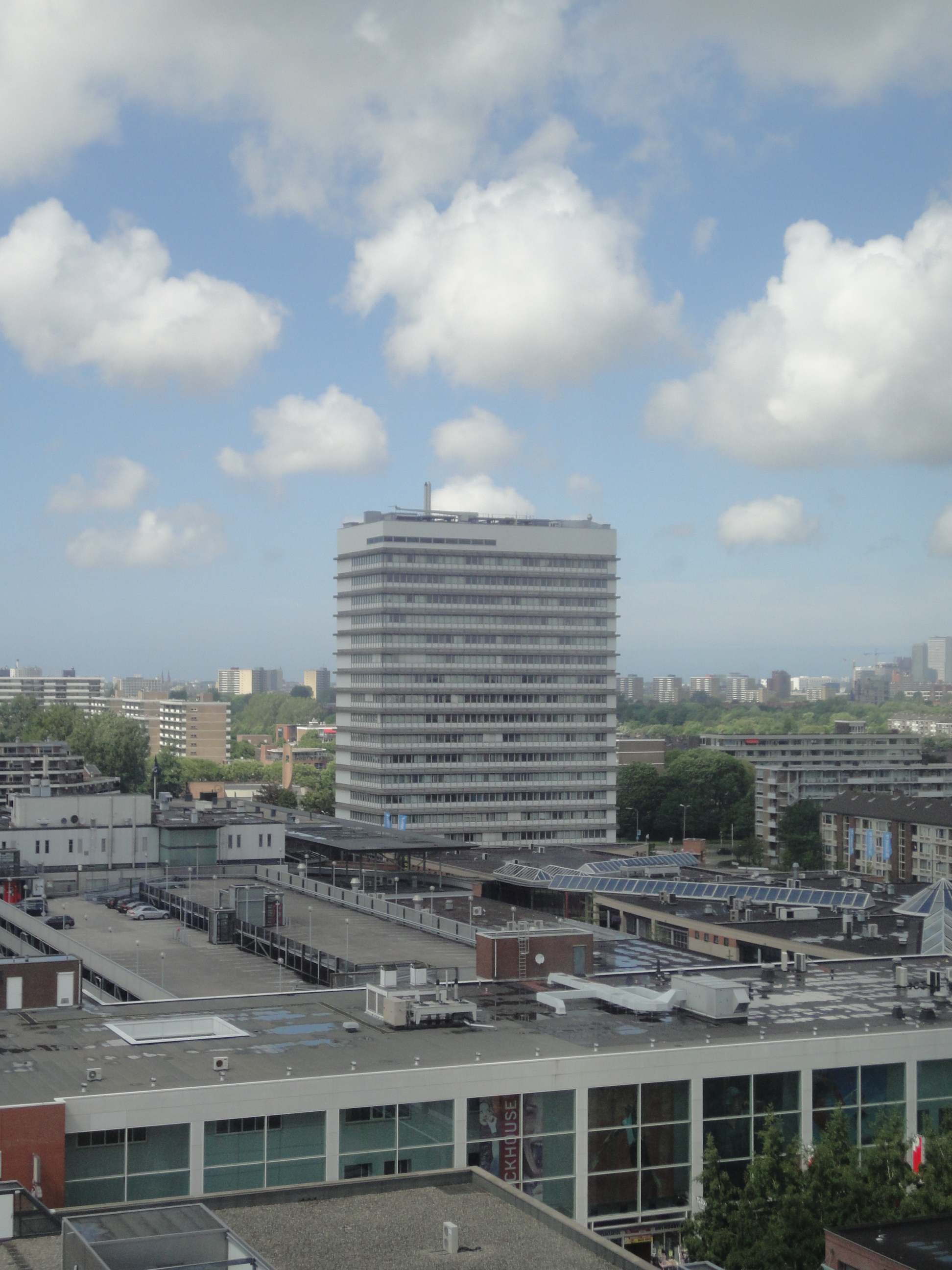 Former office of the Customs service in the Netherlands, located in Rijswijk